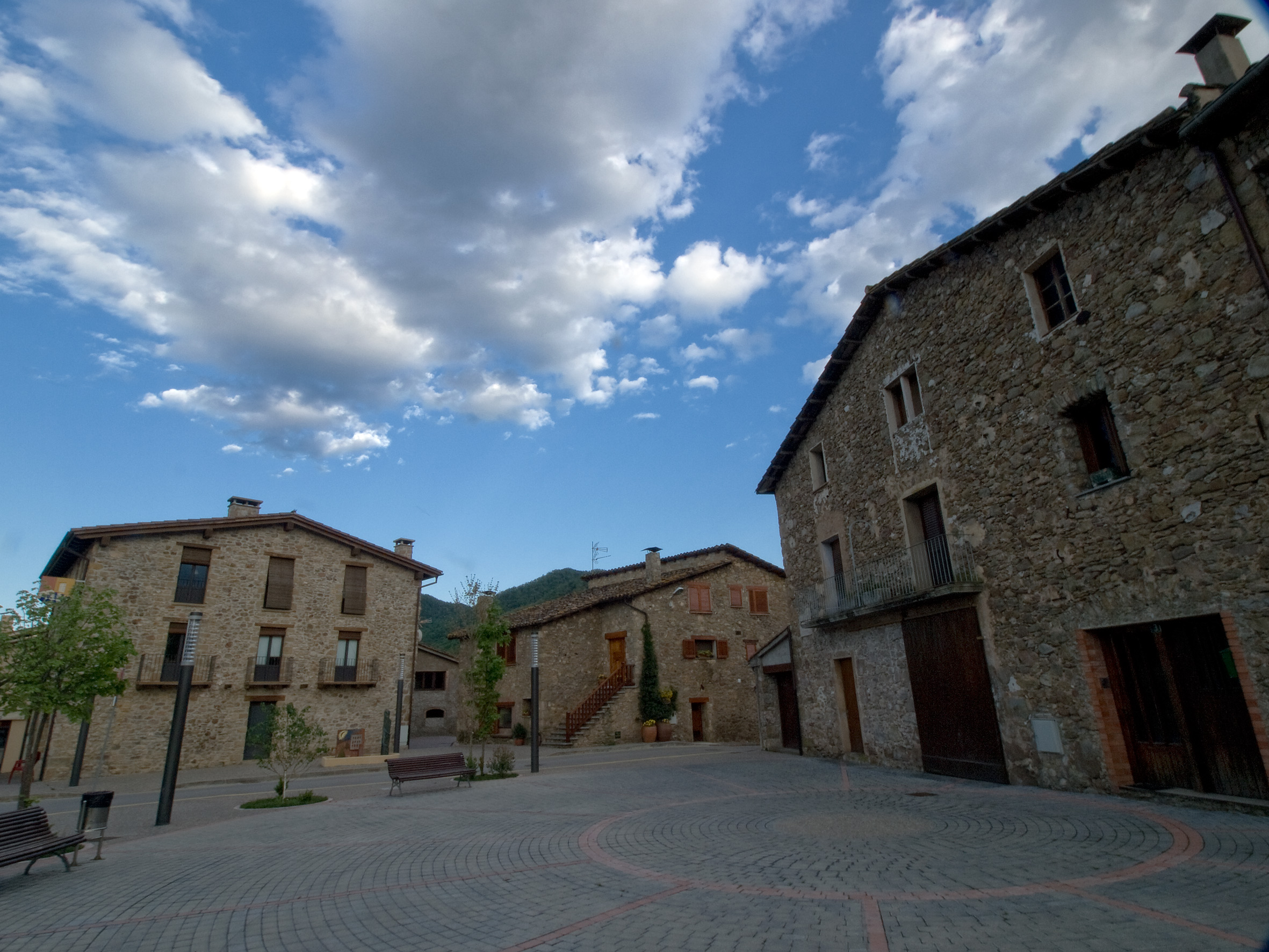 Hostalnou de Bianya Square